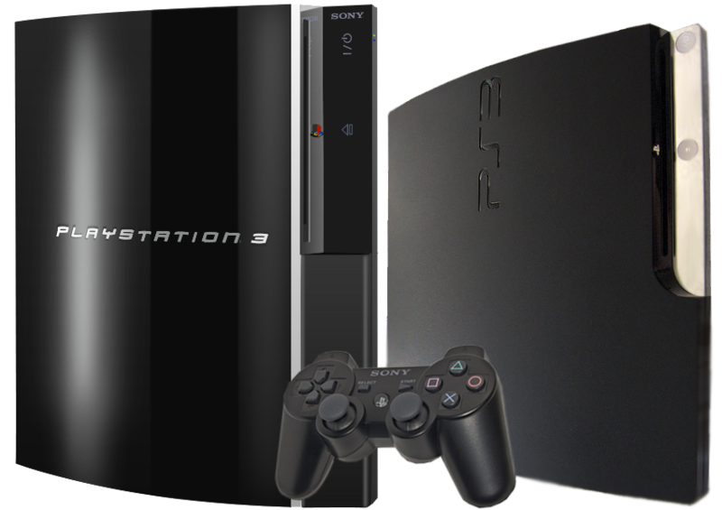 A picture showing both the original model design, the new slimmer model design of the PlayStation 3 and the DualShock 3. I used Adobe Photoshop to merge File:Sixaxis ps3 controller.jpg, File:Playstation3vector.svg, File:Chrisp PS3 Slim on White towel.jpg. Articles used in: PlayStation 3, History of video game consoles. Since all three pictures are of public domain, this one is. The reason for transition between JPEG to PNG is for picture quality and background transparency.